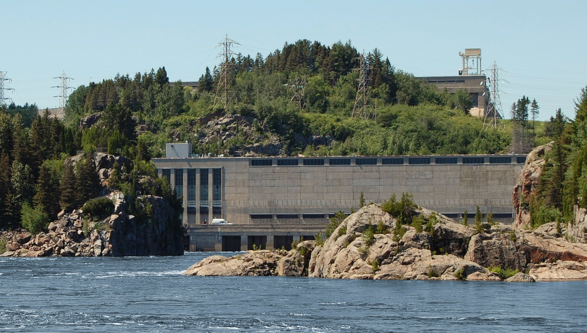 Shipshaw dam on the Saguenay river